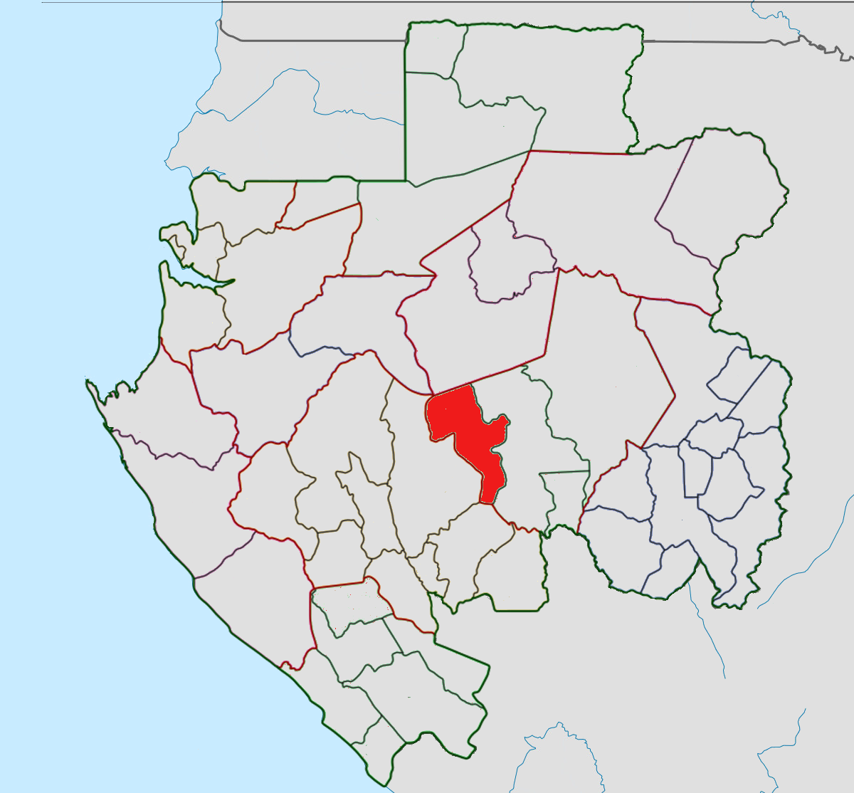 map of offoué-onoye